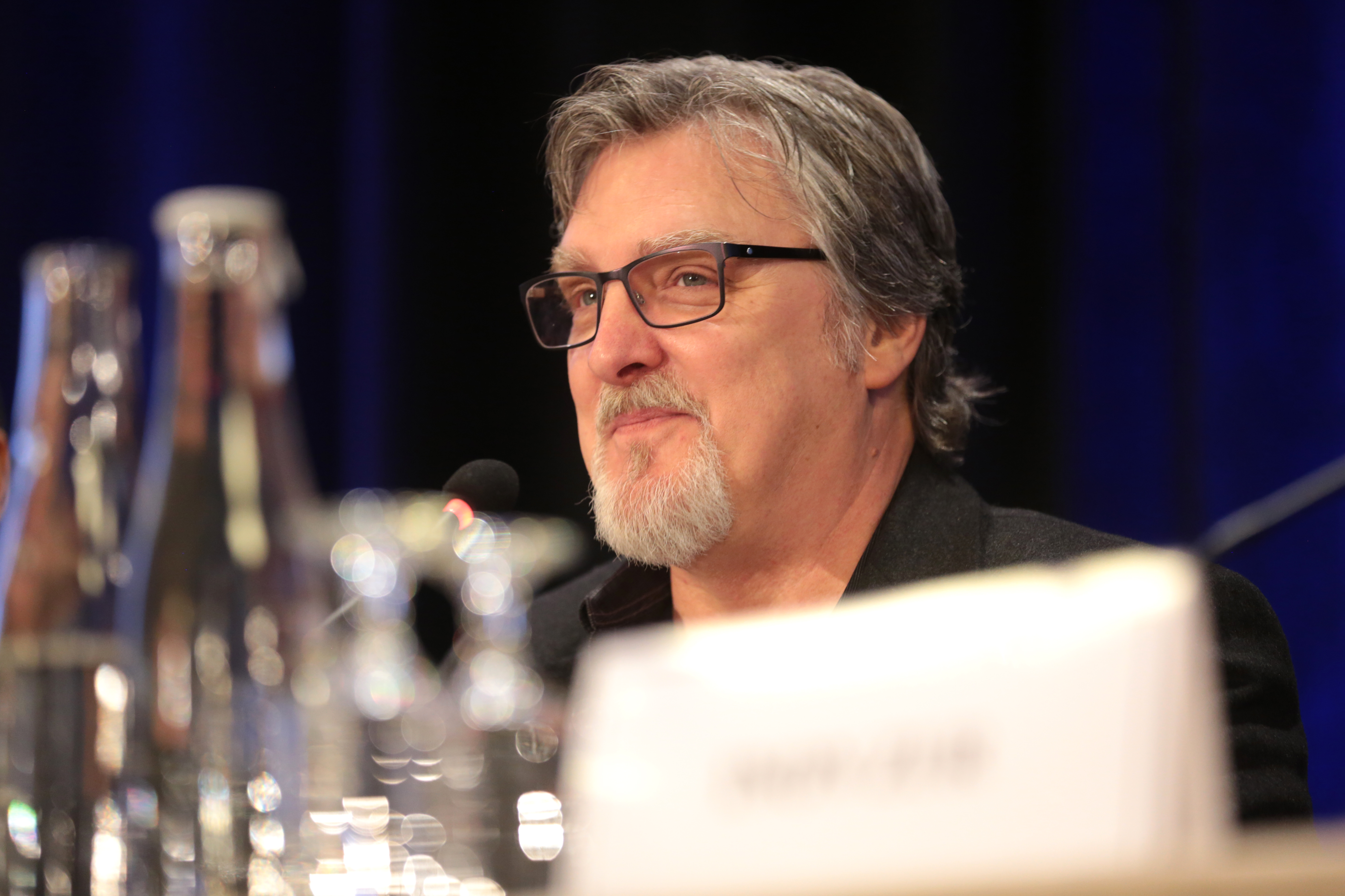 Marty O'Donnell speaking with attendees at the 2018 PAX West at the Sheraton Seattle Hotel in Seattle, Washington.